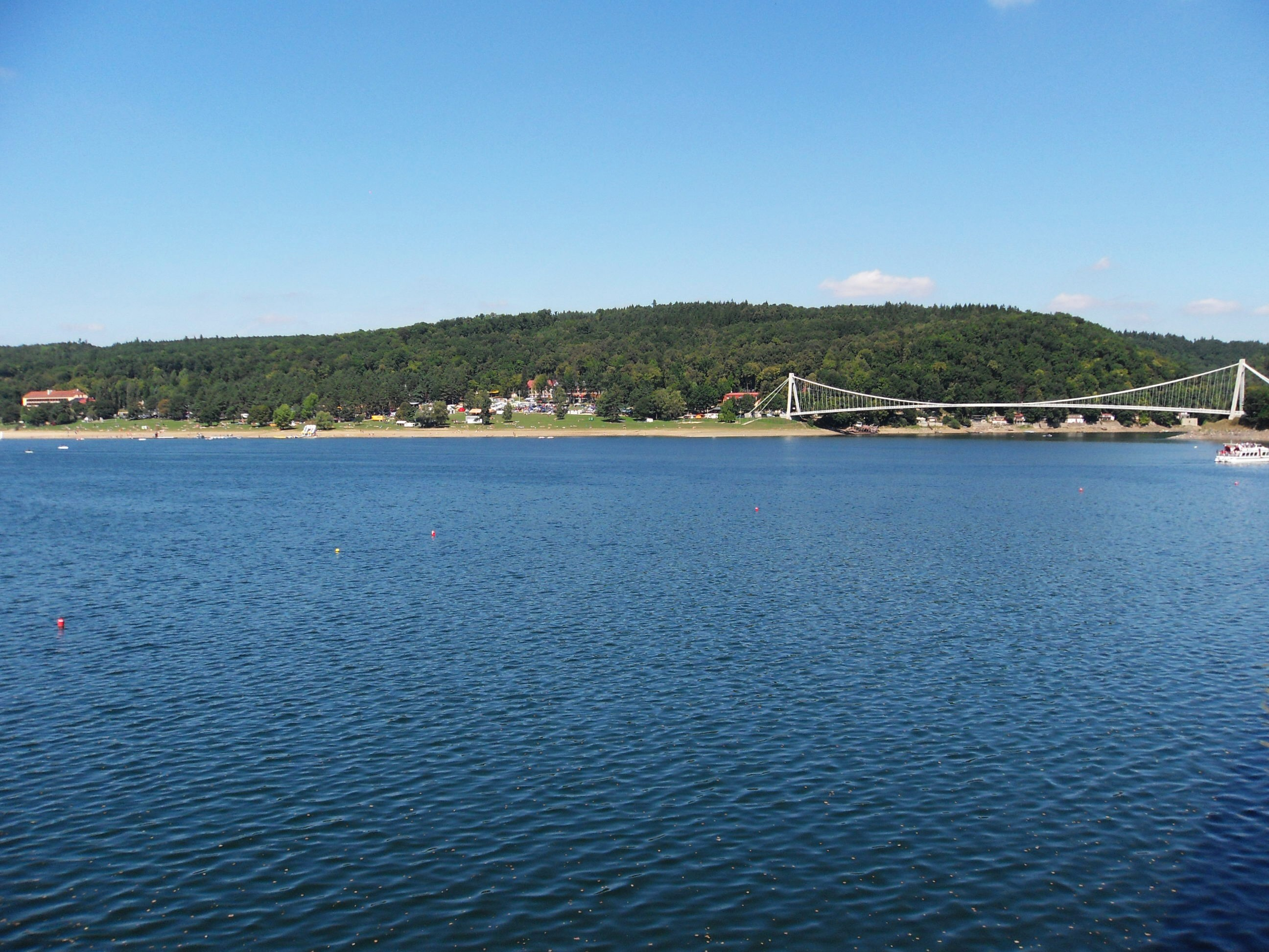 Vranov reservoir, Vranov nad Dyjí, Znojmo district, Czech Republic